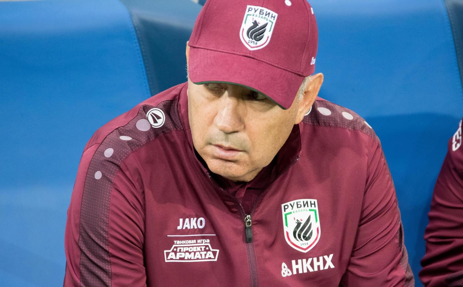 22.07.2017. Россия, Санкт-Петербург, стадион «Санкт-Петербург». Росгосстрах-Чемпионат России 2017/18, «Зенит» — «Рубин».